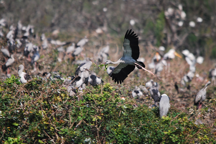 OpenBill-VedanthangalBS